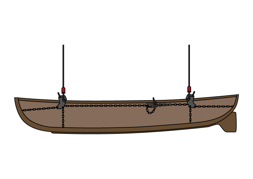 The Disengaging Gear is actually fitted just below the gunwale (side edge) of the boat.